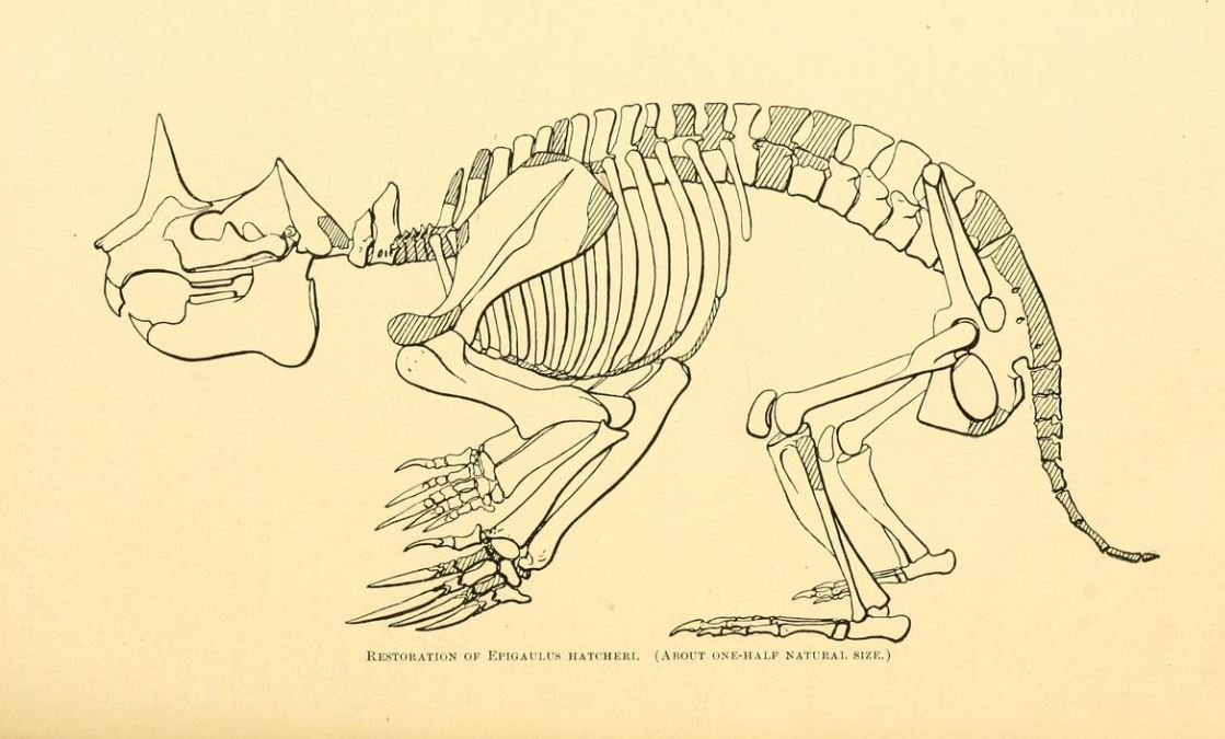 Ceratogaulus hatcheri (Epigaulus hatcheri) after James Gidley „A new horned rodent from the Miocene of Kansas”, 1907